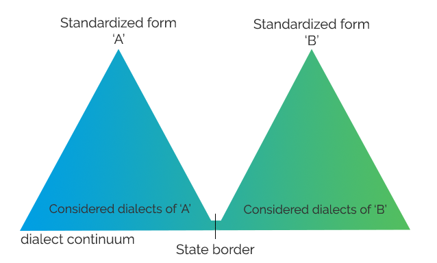 A simple diagram showing how, within a dialect continuum, separate standardized form effect the self perception of either dialect within the continuum as belong to form A or B.